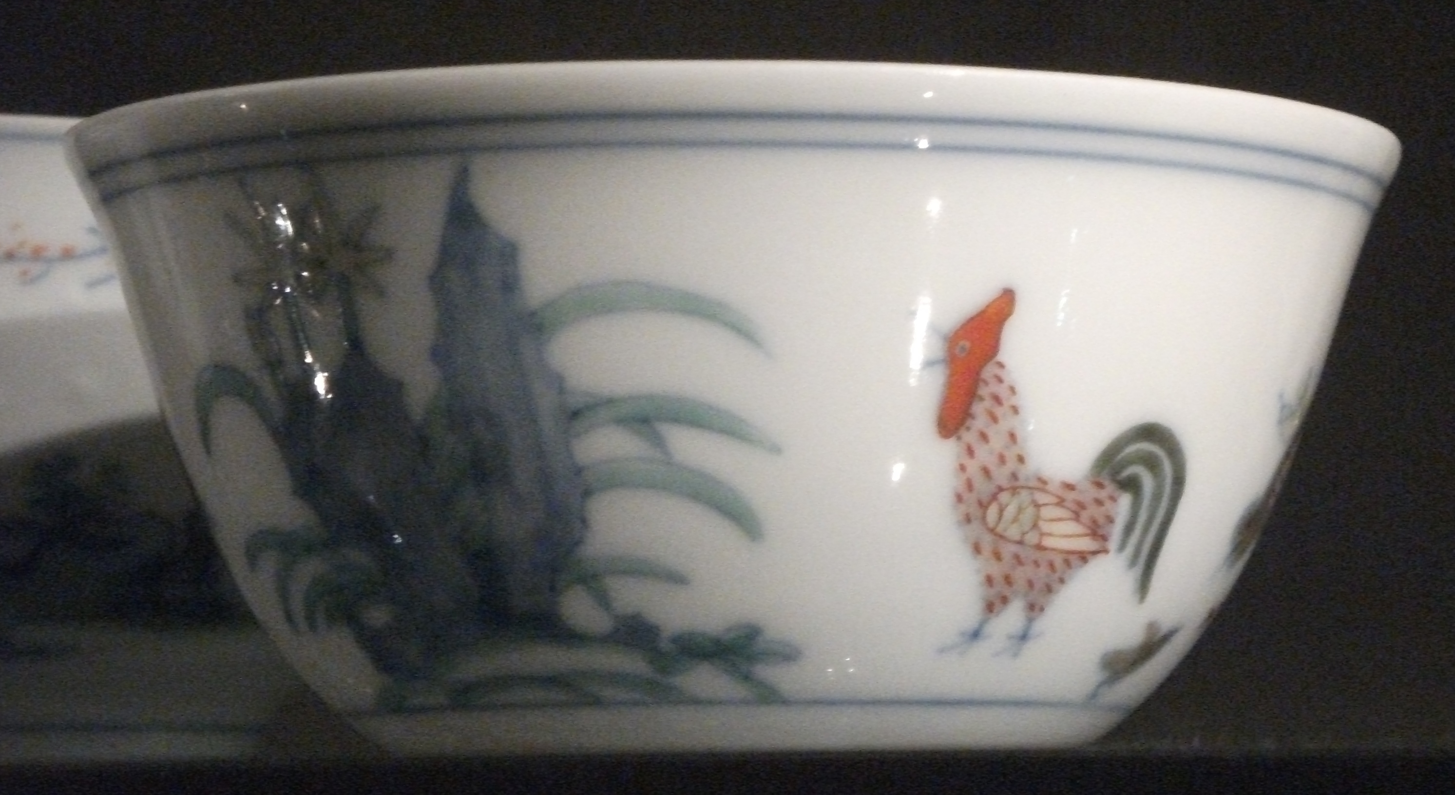 Chicken cup in doucai, Chenghua era mark, Ming dynasty. Percival David Collection, Room 95, British Museum